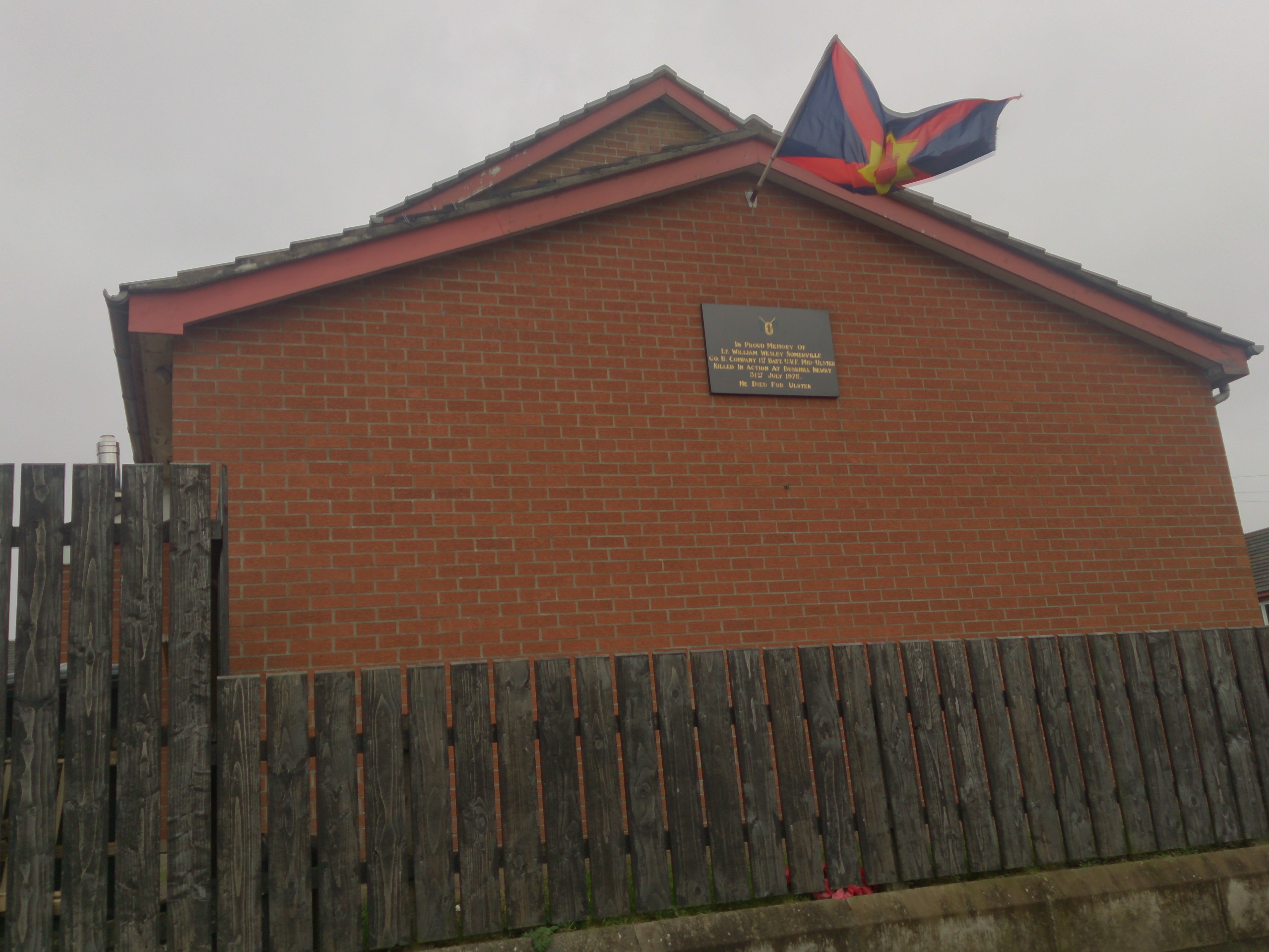 A memorial plaque to UVF member Wesley Somerville in Moygashel.The inscription reads he died for Ulster.